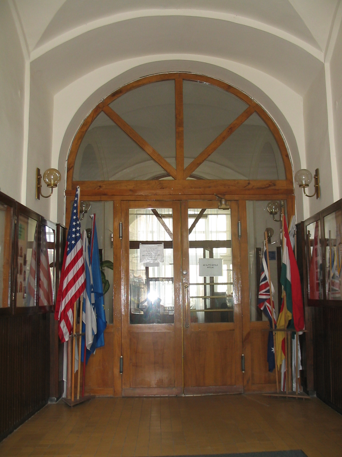 The entrance hall of the Varga Katalin Secondary School (Varga Katalin Gimnázium), Szolnok